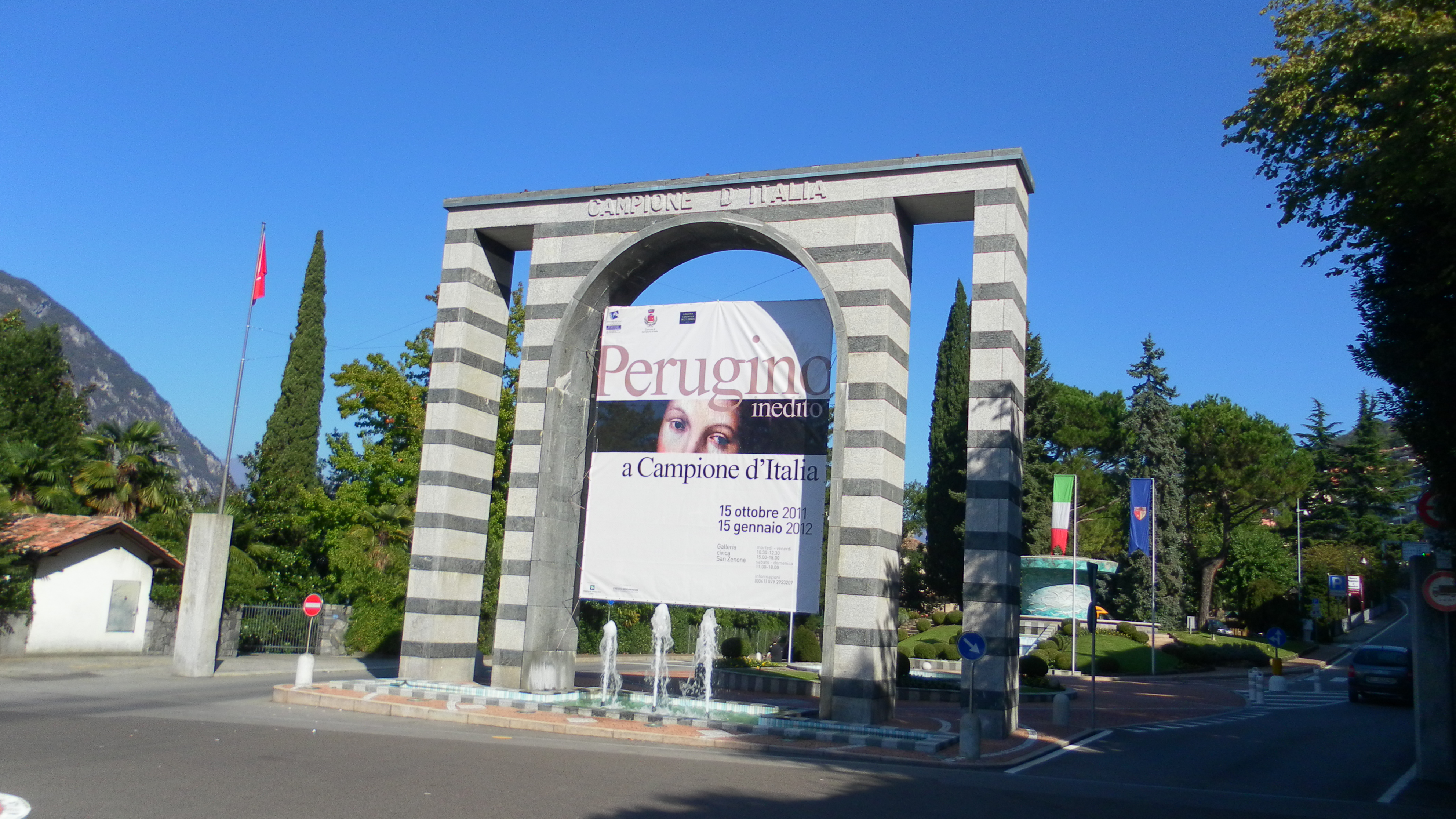 Piazza Indipendenza, border between Campione d'Italia (Italy) and Bisssone (Switzerland)